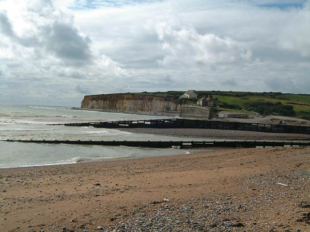 Cuckmere Haven. The mouth of the Cuckmere